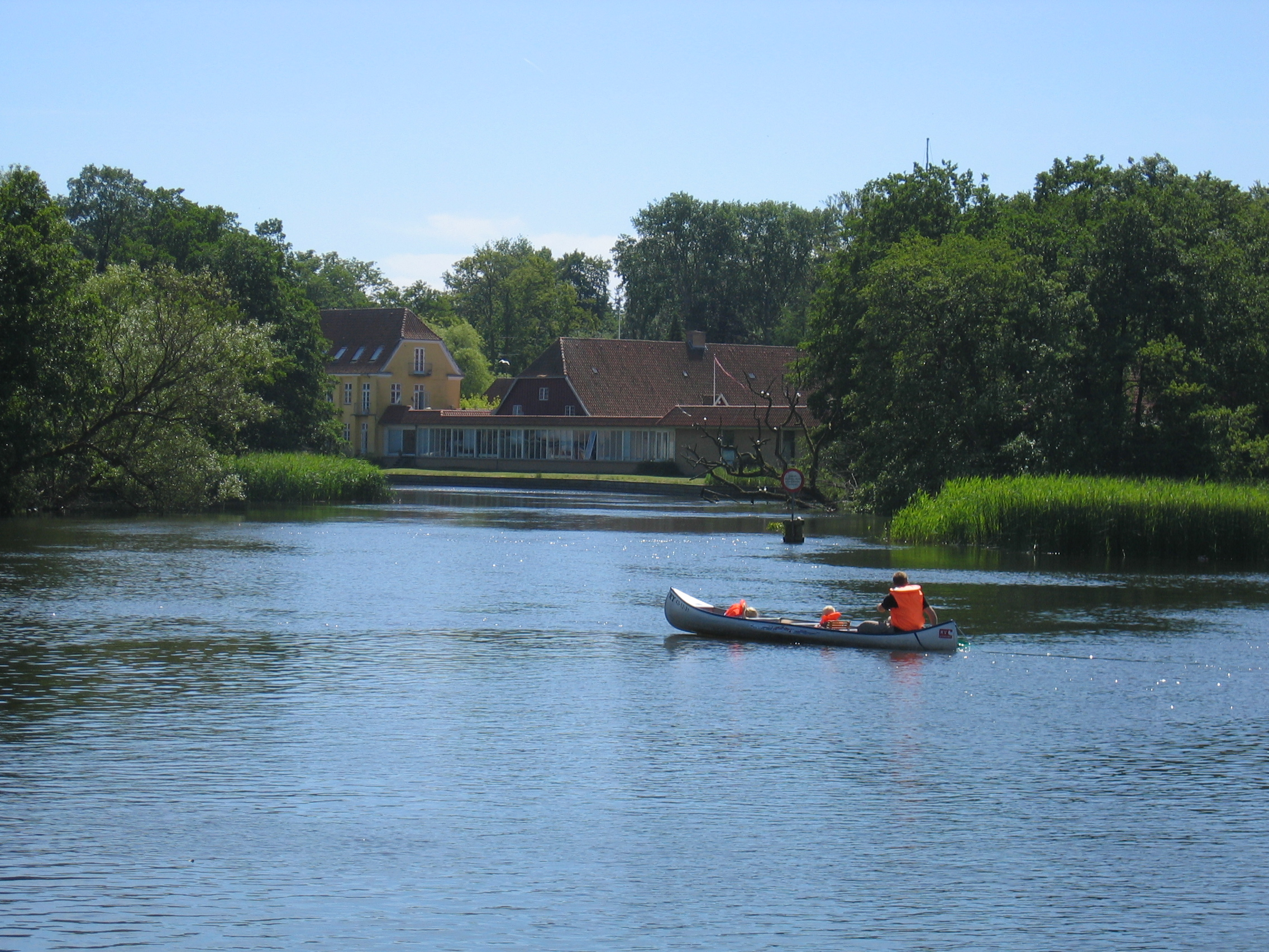 Lillesø (lake), Ry, Denmark